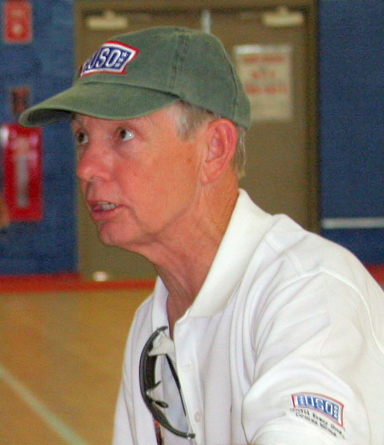 Dave Odom, basketball coach of the University of South Carolina